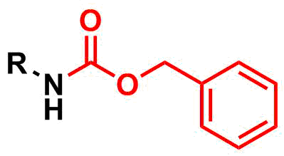 General amine protection with carboxybenzyl group